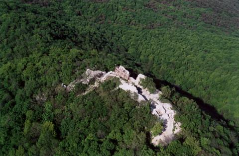 Rezi - castle, Hungary, aerialphotography